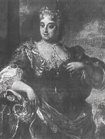 Eleonora Luisa Gonzaga, daughter of Vincenzo Gonzaga, Duke of Guastalla; wife of Francesco Maria de' Medici